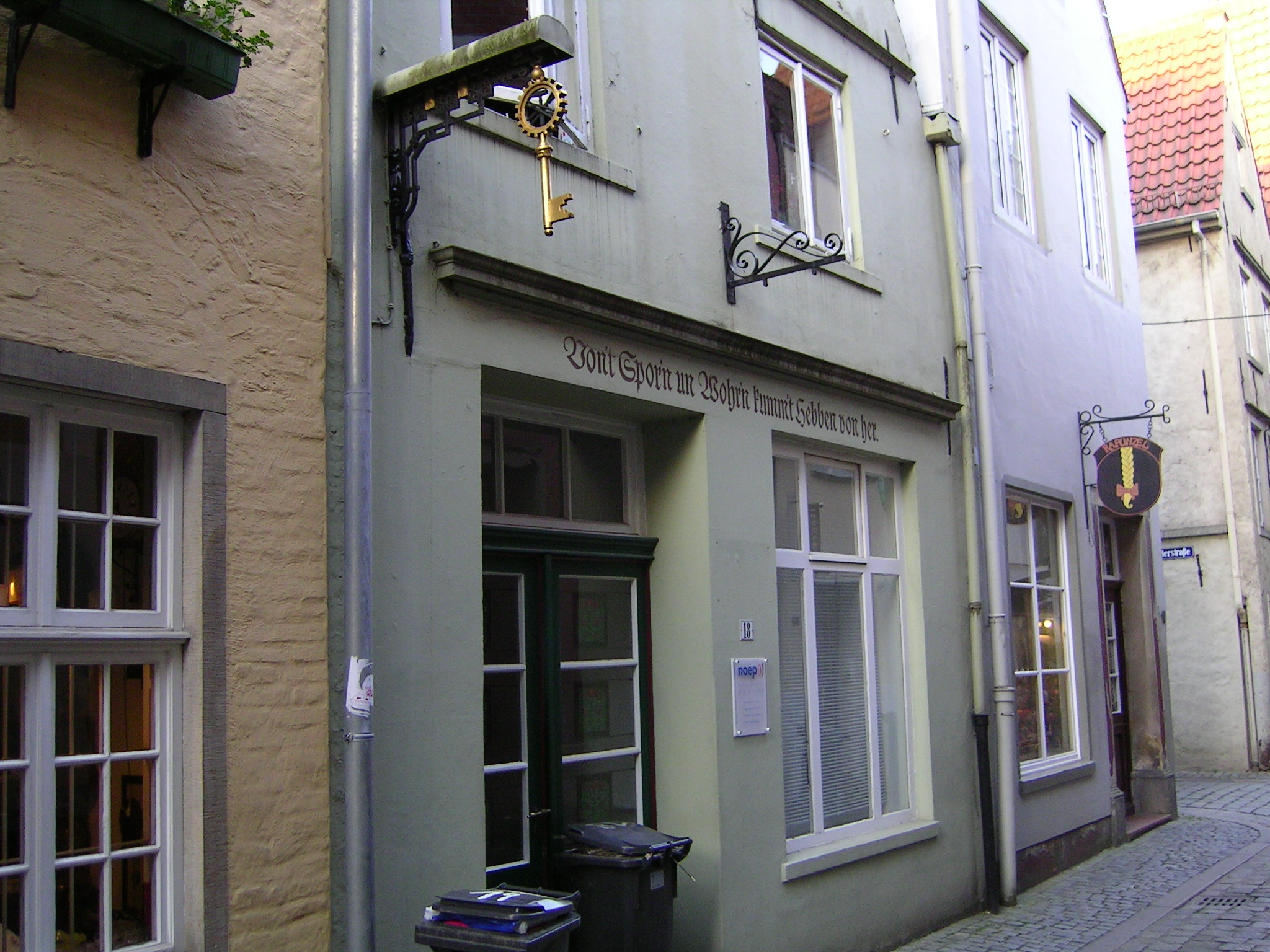 Houses from the 15th and 16th centuries along the narrow alleys in Bremen’s oldest surviving quarter